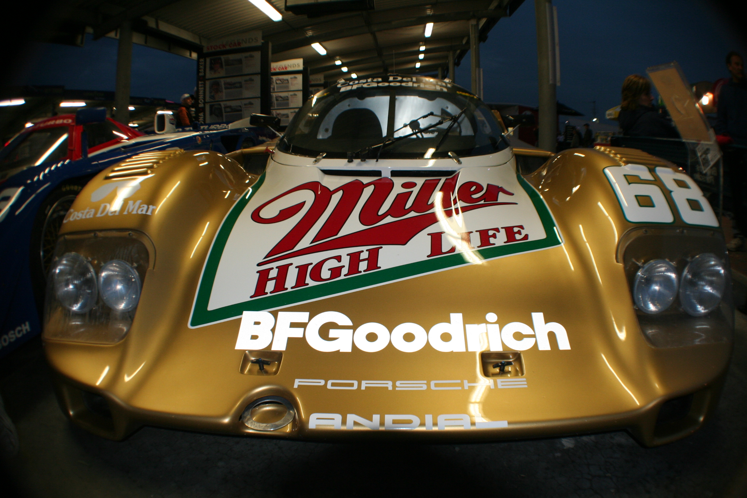 The 1989 Porsche 962 driven by Mario Andretti and Michael Andretti1989 Mario & Michael Andretti Miller High Life Porsche 962